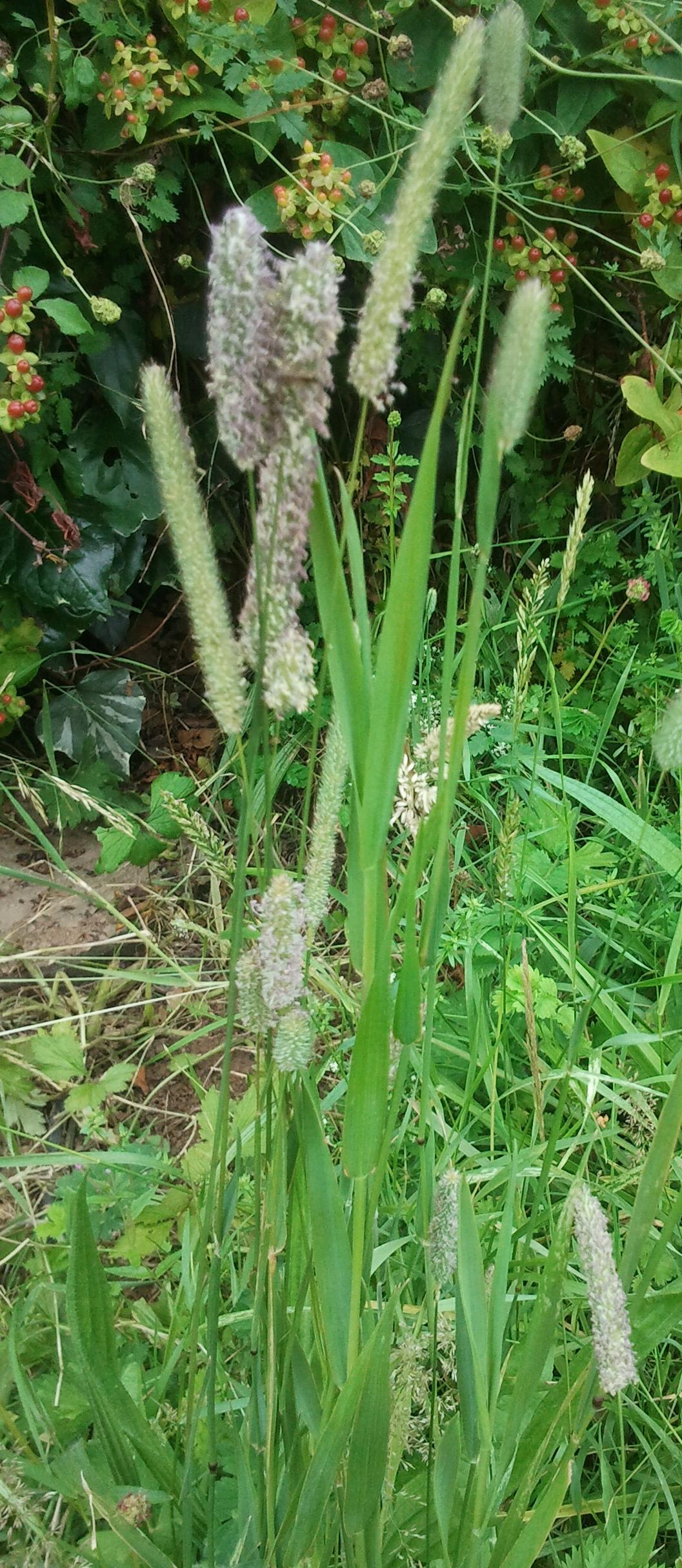 Timothy grass (Phleum pratense L.) in Tiverton